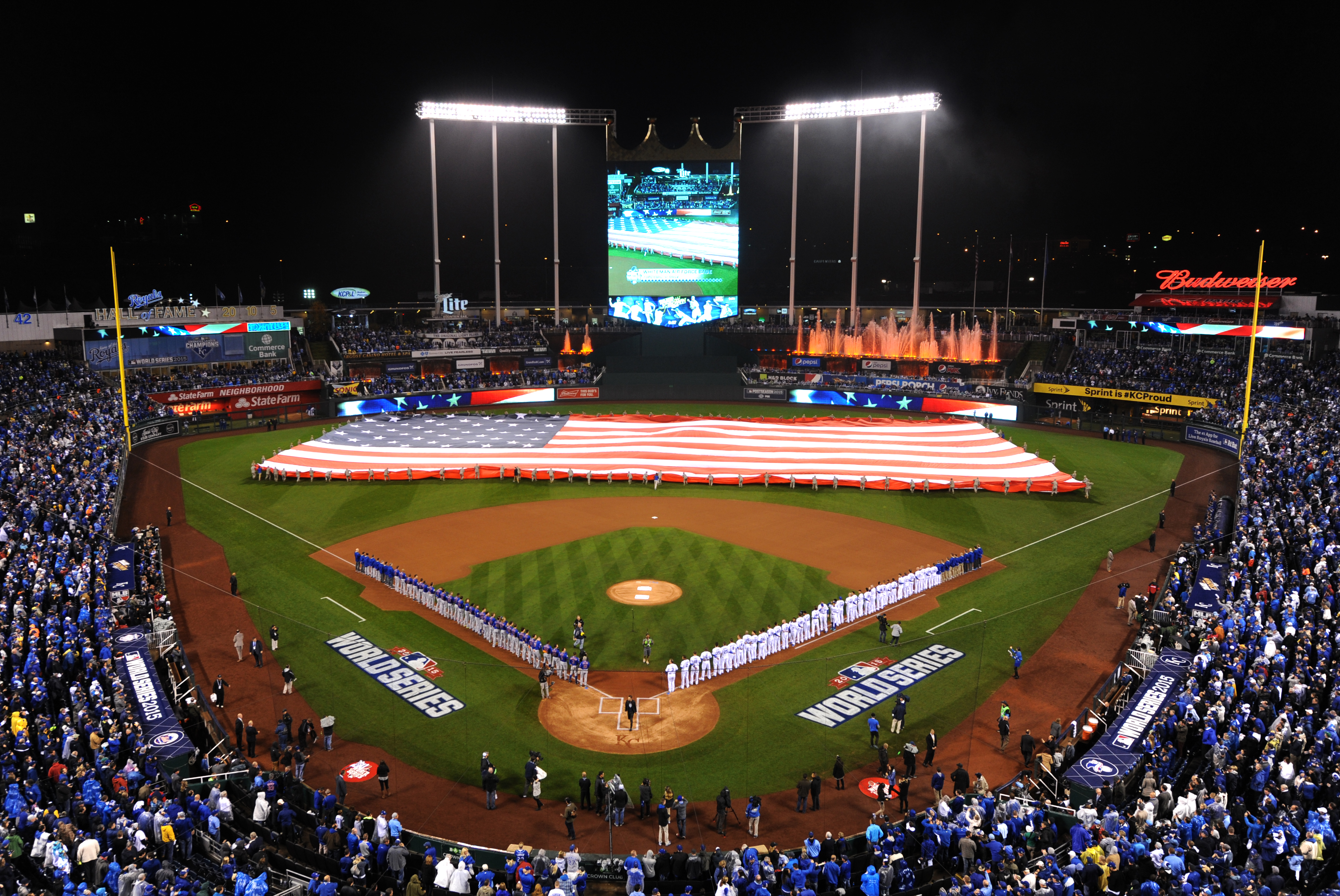 10/28/2015 - Members of Team Whiteman take part in a flag ceremony during pregame ceremonies of the World Series game one at Kauffman Stadium in Kansas City, Mo., Oct. 27, 2015. More than 100 service members participated in the flag ceremony that took place before the game where the Kansas City Royals defeated the New York Mets 5-4 in 14 innings. (U.S. Air Force photo by Tech. Sgt. Miguel Lara III/Released)